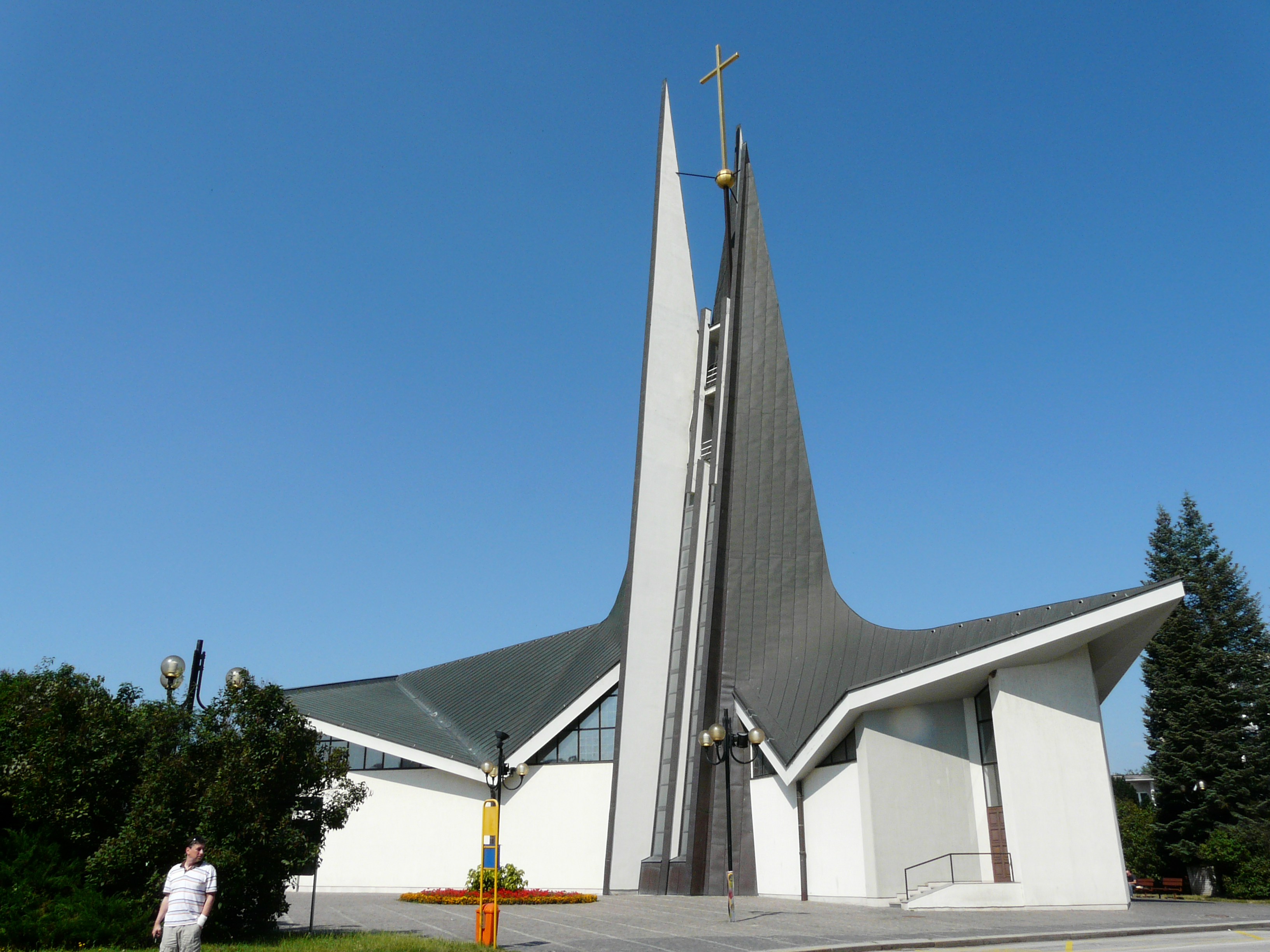 St Wenceslas church in Břeclav.